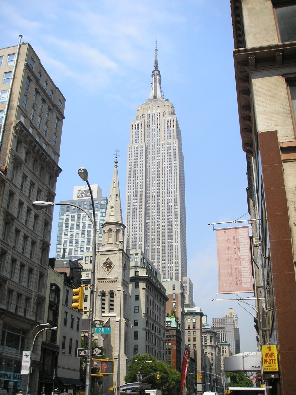 The Empire State Building in New York City, taken from 5th Avenue.